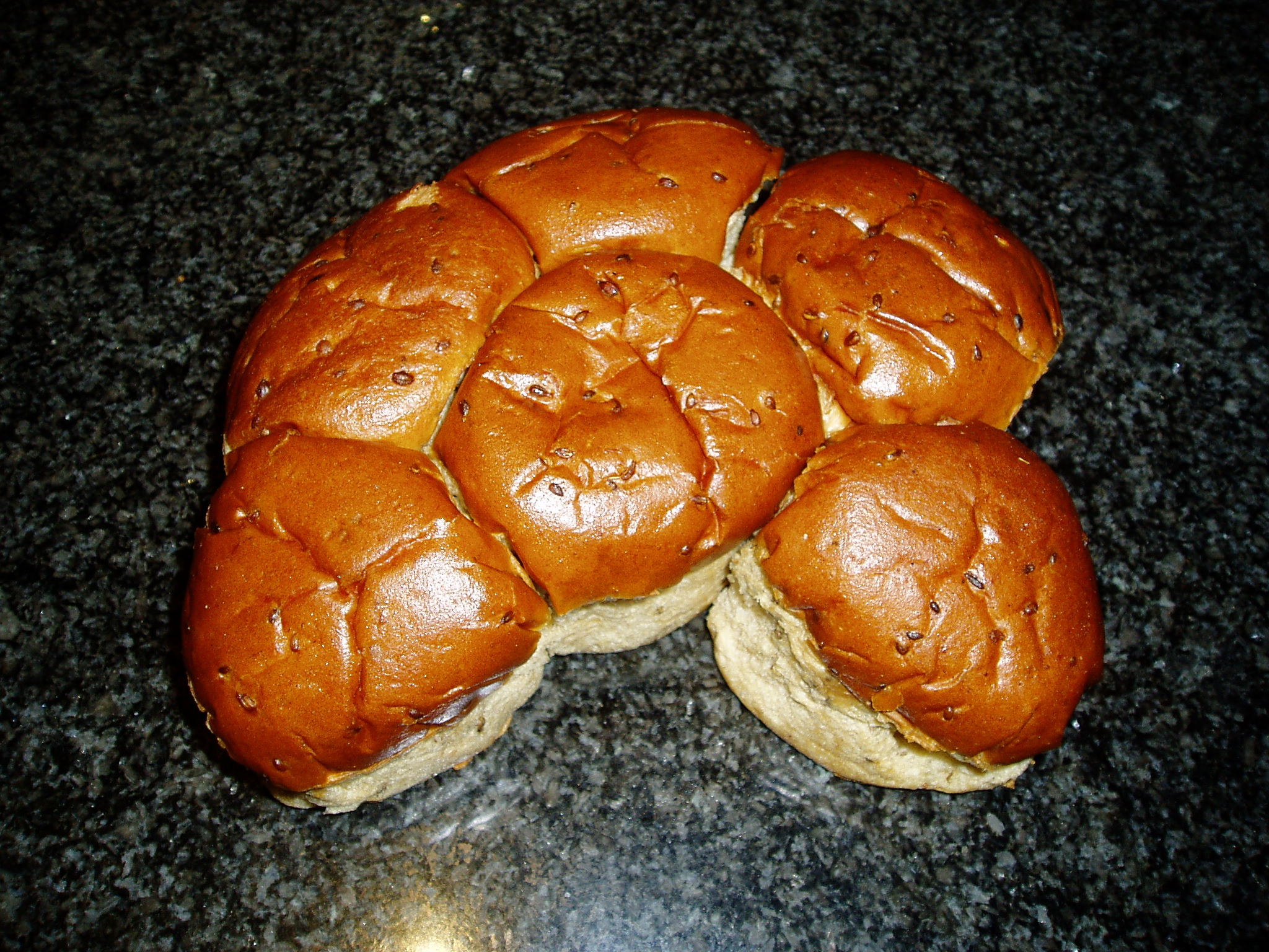 Zûte plassies: a speciality bread from Ommen in the Netherlands, available between the end of October and mid December.